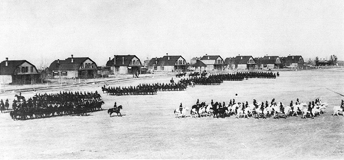 National Park Service Soldier and Brave Survey of Historic Sites and Buildings